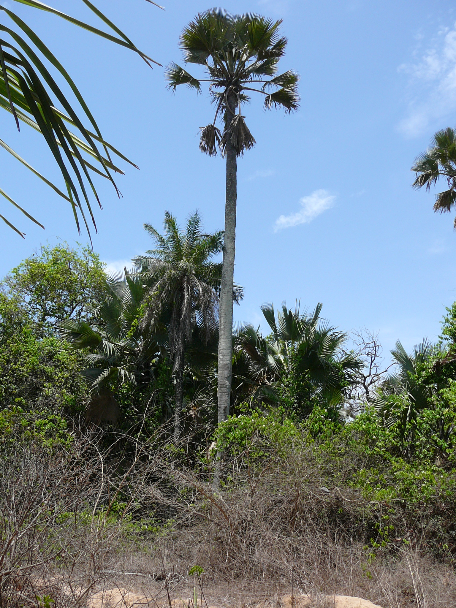 African Palmyra Palm